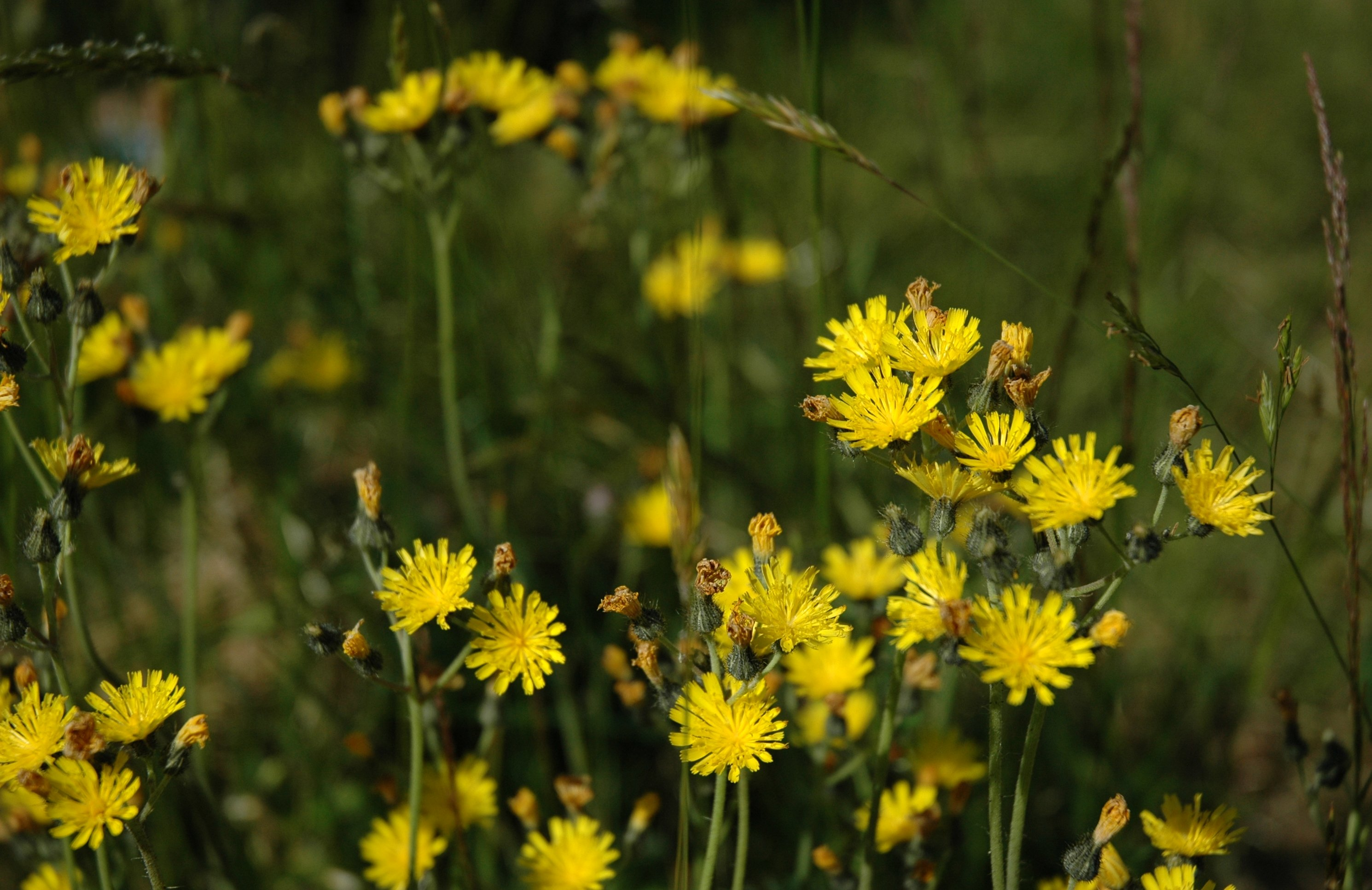 At the SCA event. Eastman, Quebec.